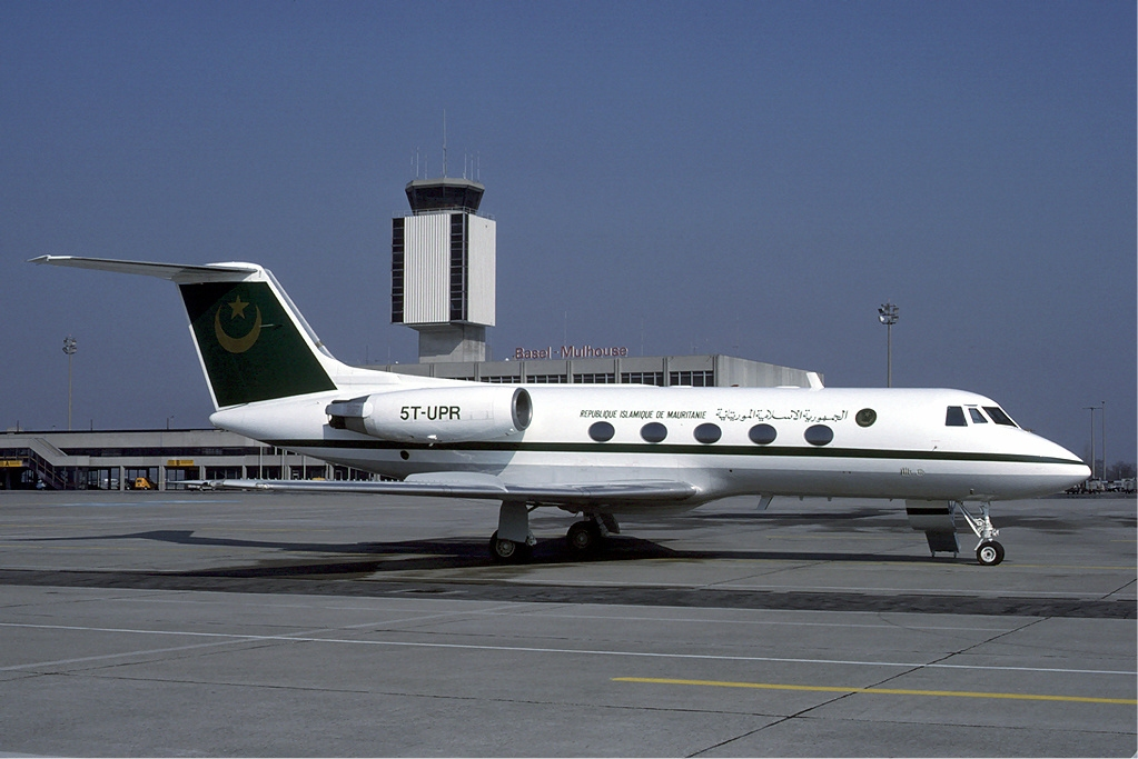 Mauritania Government G-1159 Gulfstream II at Basel Aiprort March 1987